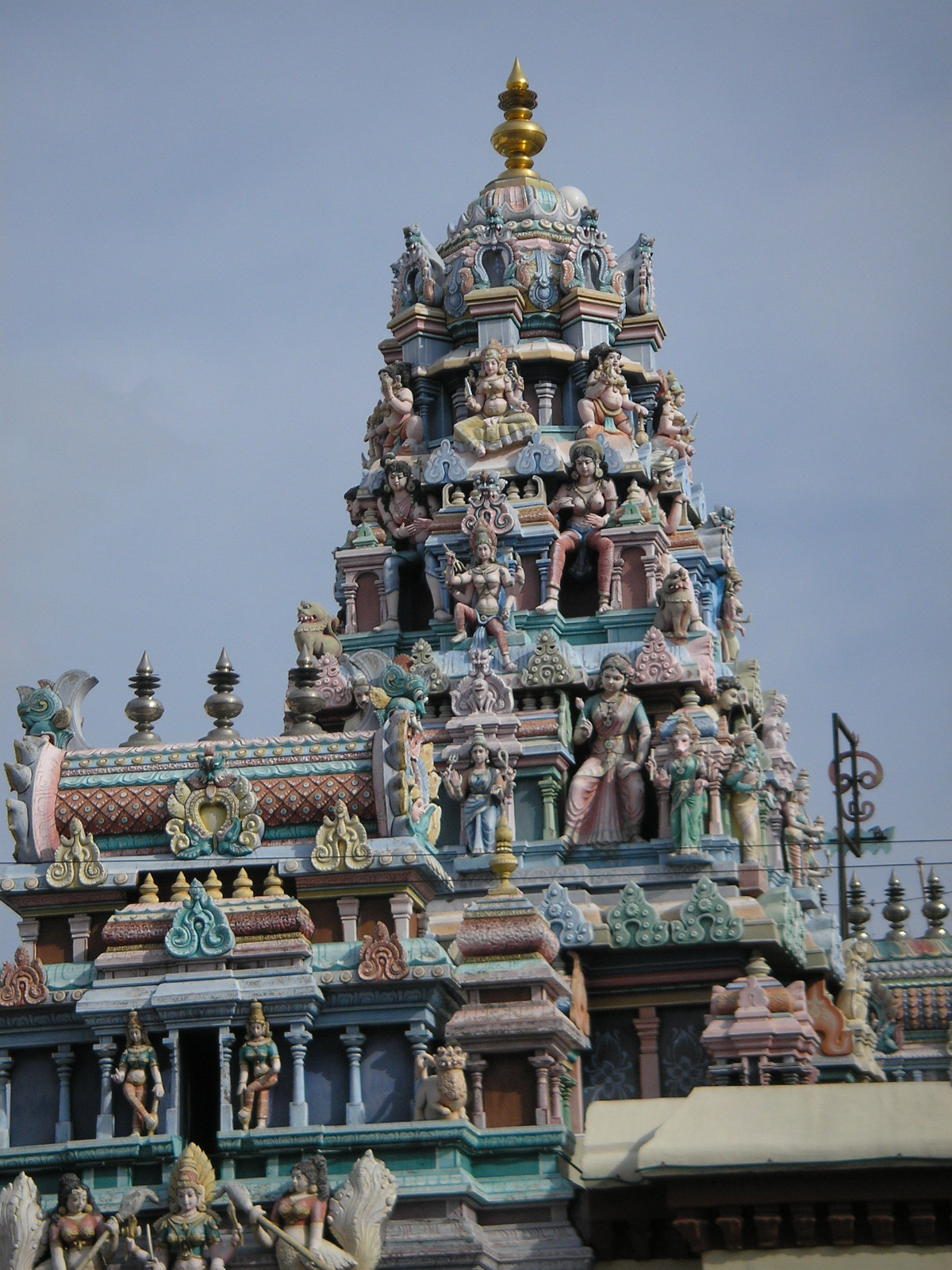 The Mahamariamman Temple (also known as Sri Mariamman Temple), in Georgetown in Penang.